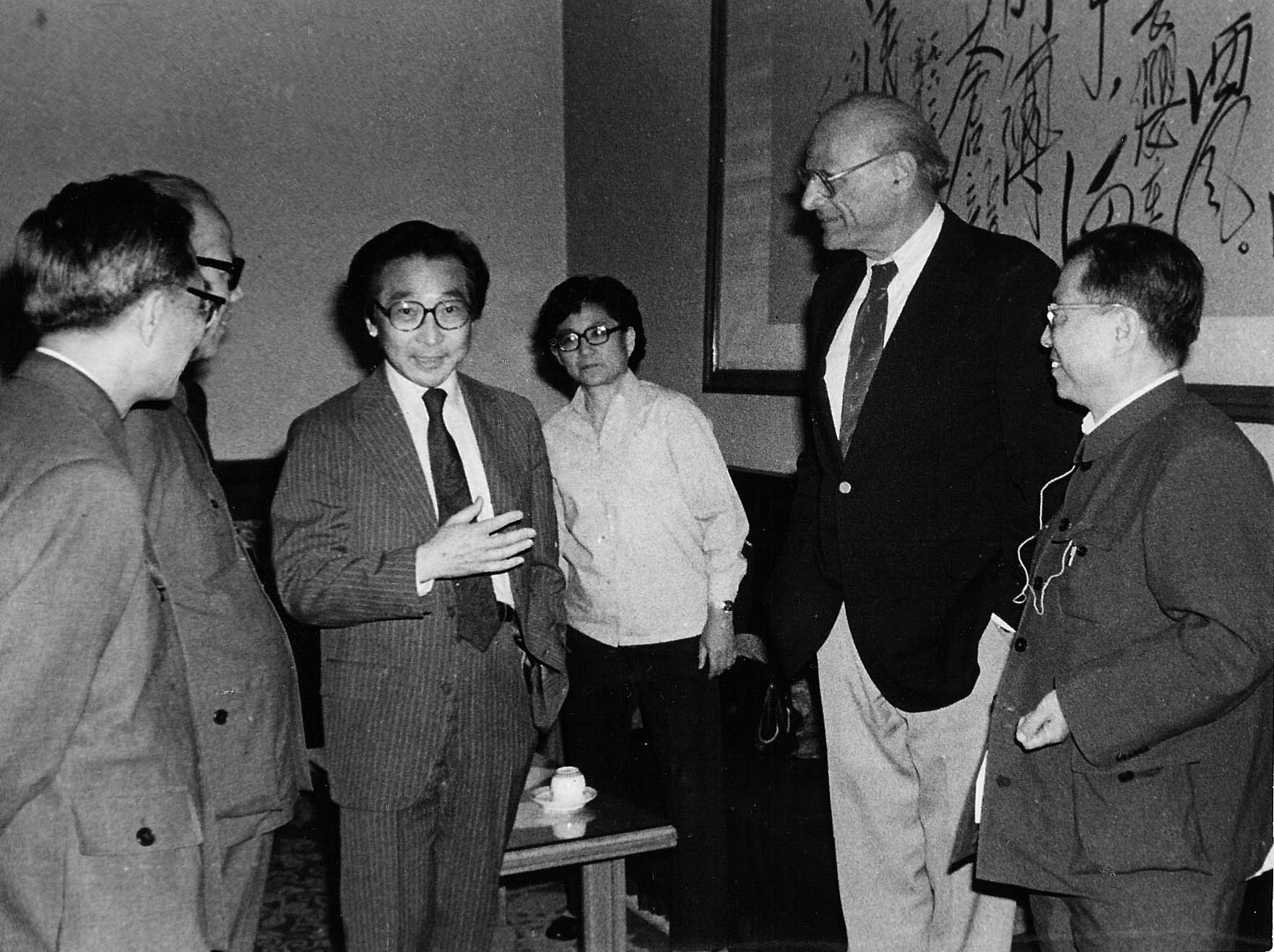 Arthur Miller, Chou Wen-Chung, and Cao Yu at Columbia University, 1980. Photo courtesy of, The Center for US-China Arts Exchange.